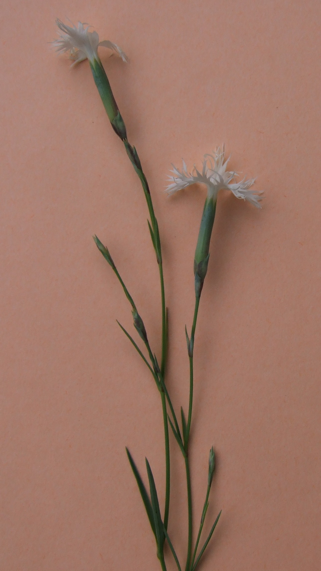 Dianthus plumarius ssp. praecox